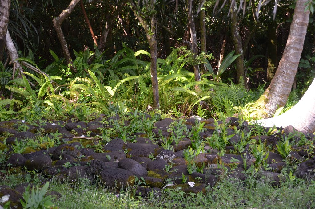 Heiau, possibly for Lono or Kanaloa